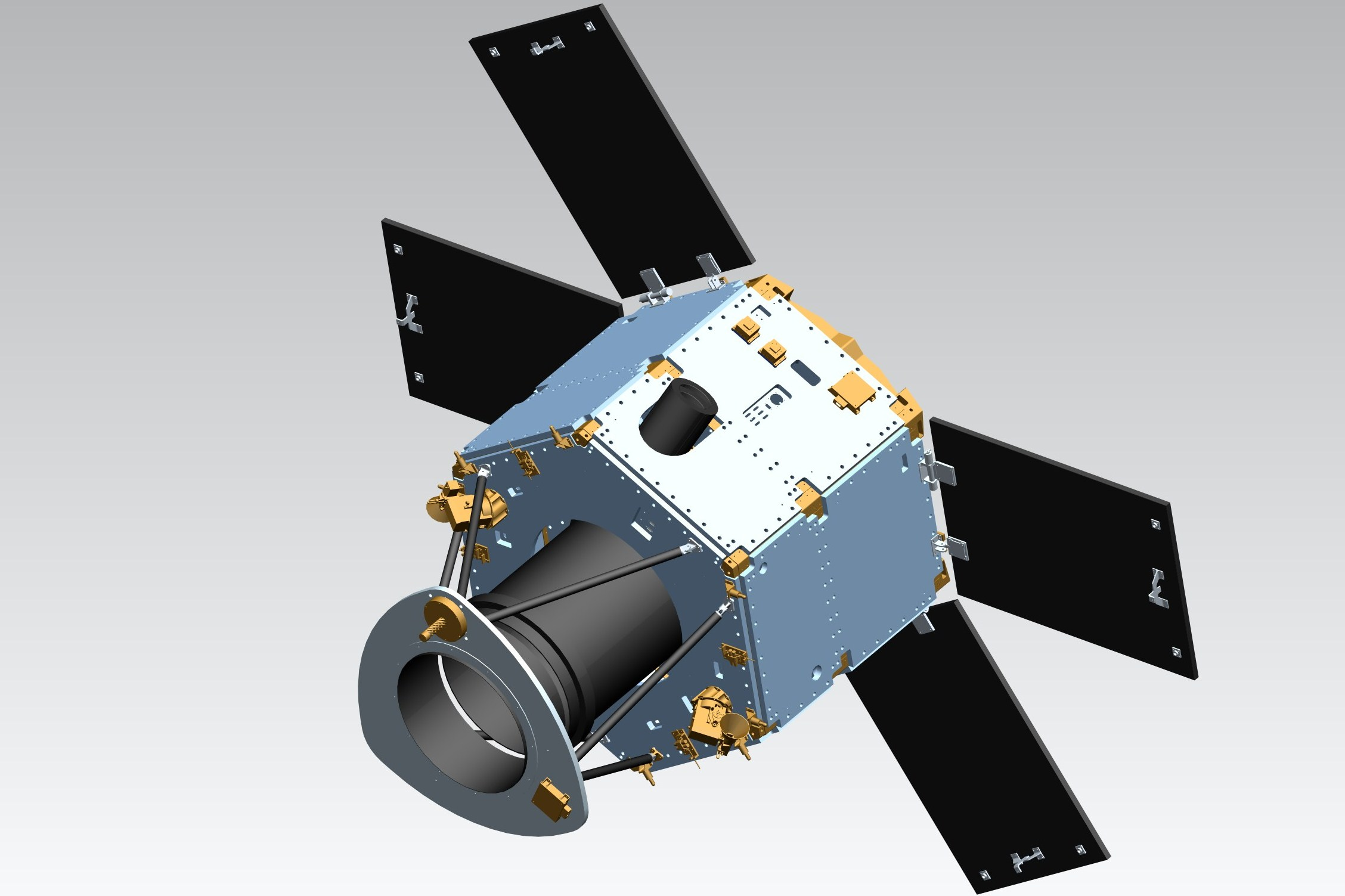 DubaiSat-2, from Emirates Institution for Advanced Science and Technology, Dubai